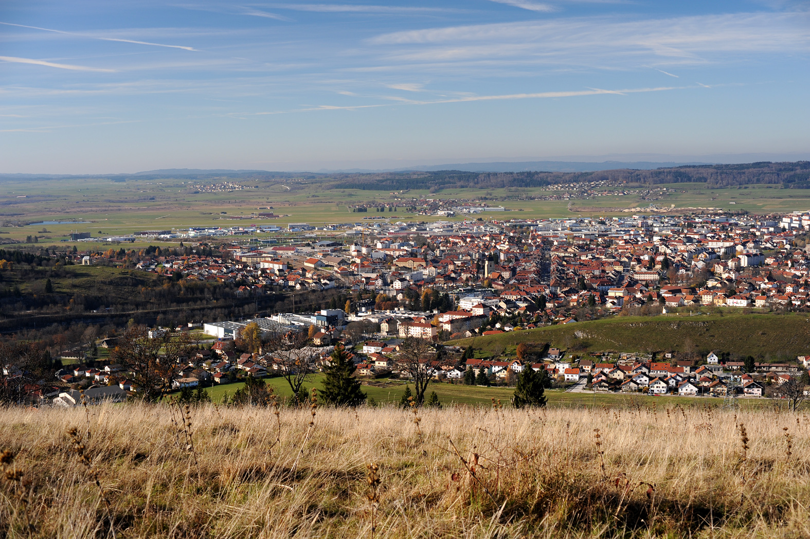 Vue to Pontarlier from the montagne du Larmont; Doubs, Franche-Comté.